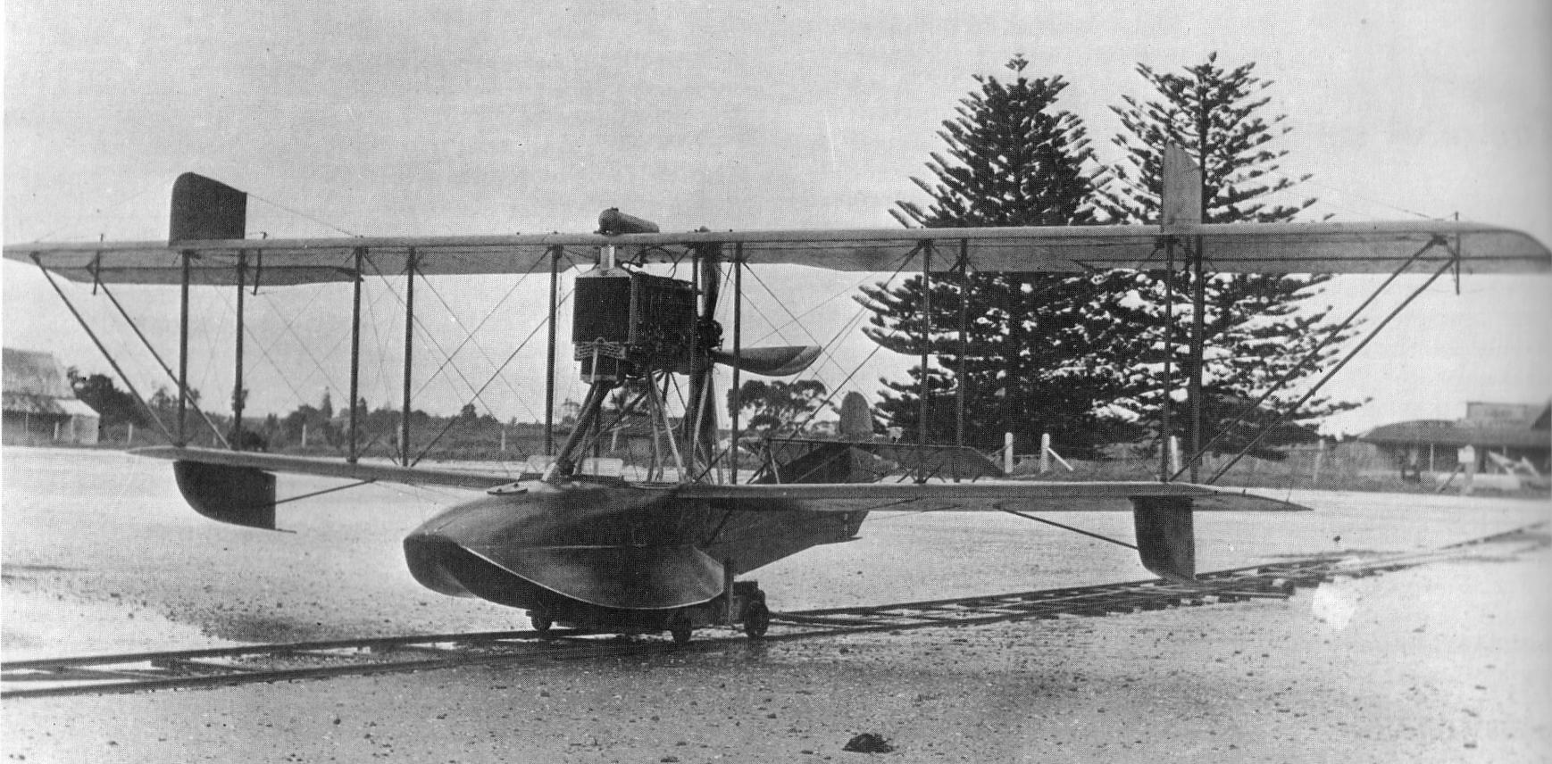 Walsh Type D. Walsh Brothers Flying Boats were used to train World War I pilots in New Zealand. Image free of copyright in source; "The History of New Zealand Aviation" - R MacPherson & R Ewing, NZ copyright law applied (copyright extinguished for photograph 50 years from death of artist). Licence uploaded below will not be entirely appropriate due to lack of non-US law options in drop down menu - Wikipedians are not based where wiki servers are - applying US law rules to Wikipedia is simple, but simplistic and wrong - sometimes even in US courts. Please help fix this by opposing exclusionist US law based IP policies :-).